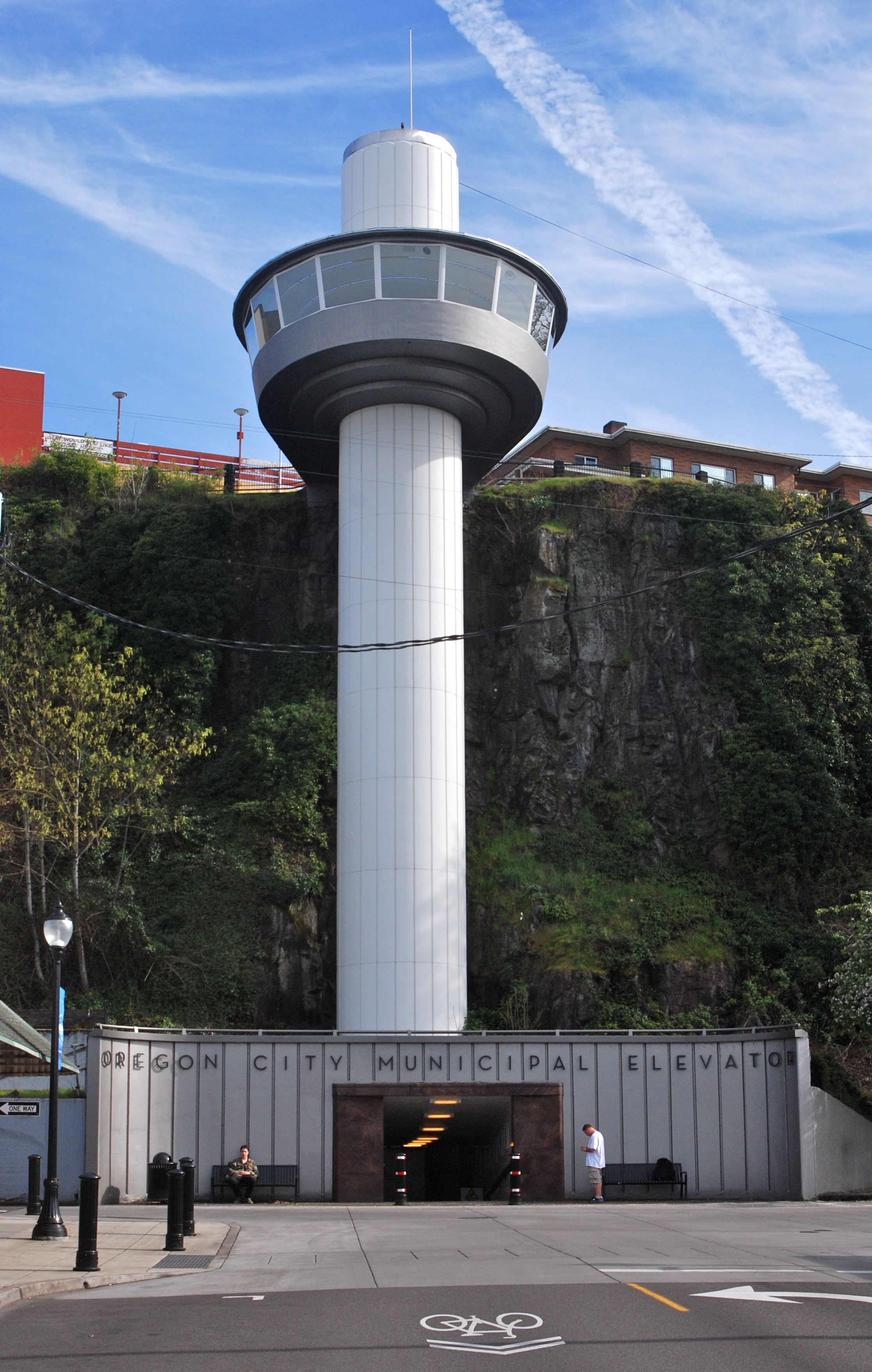 The Oregon City Municipal Elevator (in Oregon City, Ore.) is listed on the U.S. National Register of Historic Places.